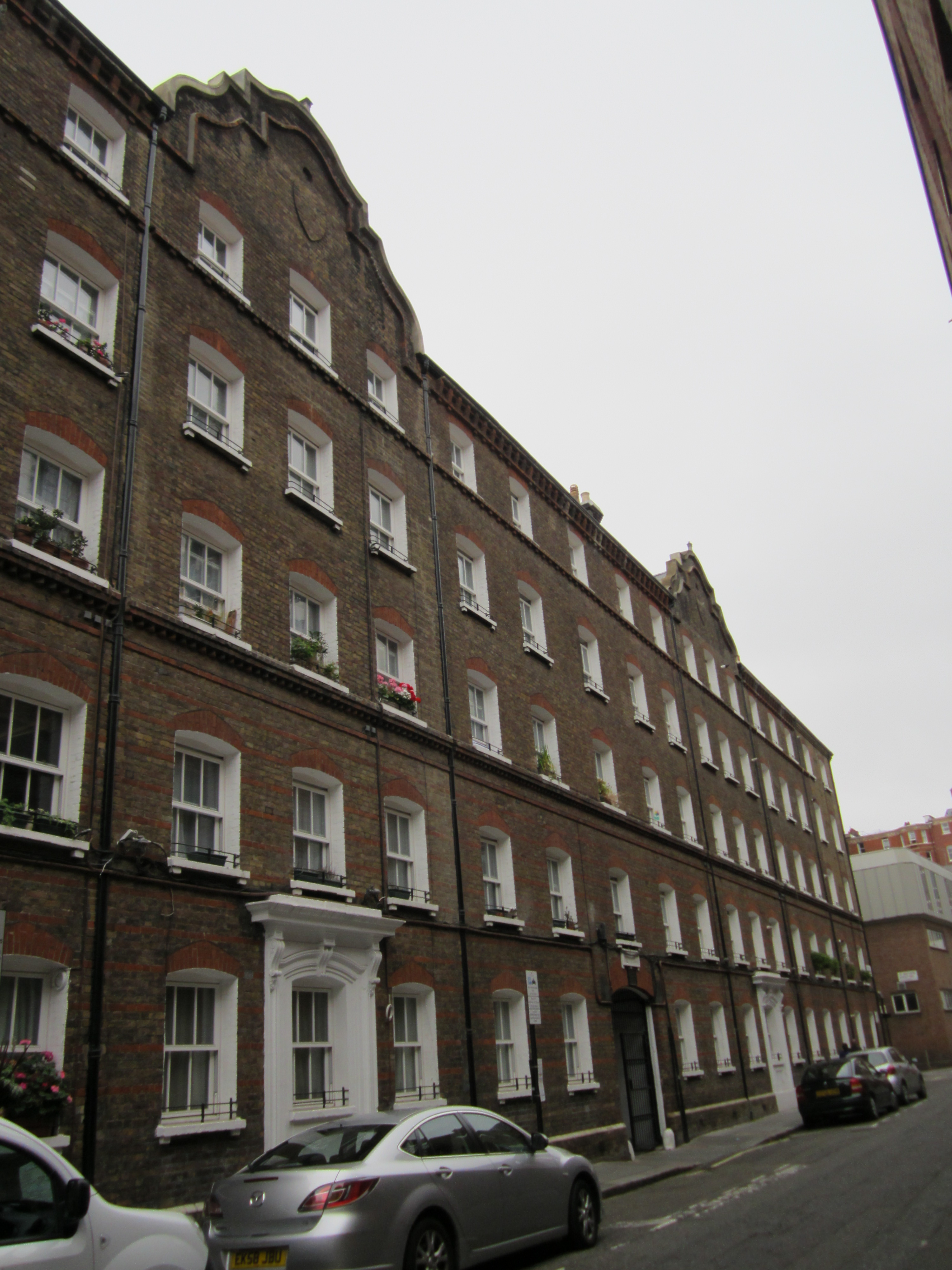 The Abbey Orchard Estate, Old Pye Street, London. Designed by Henry Darbishire, build by the Peabody Trust in 1882 as part of slum clearances (the slum was known as Devil's Acre).